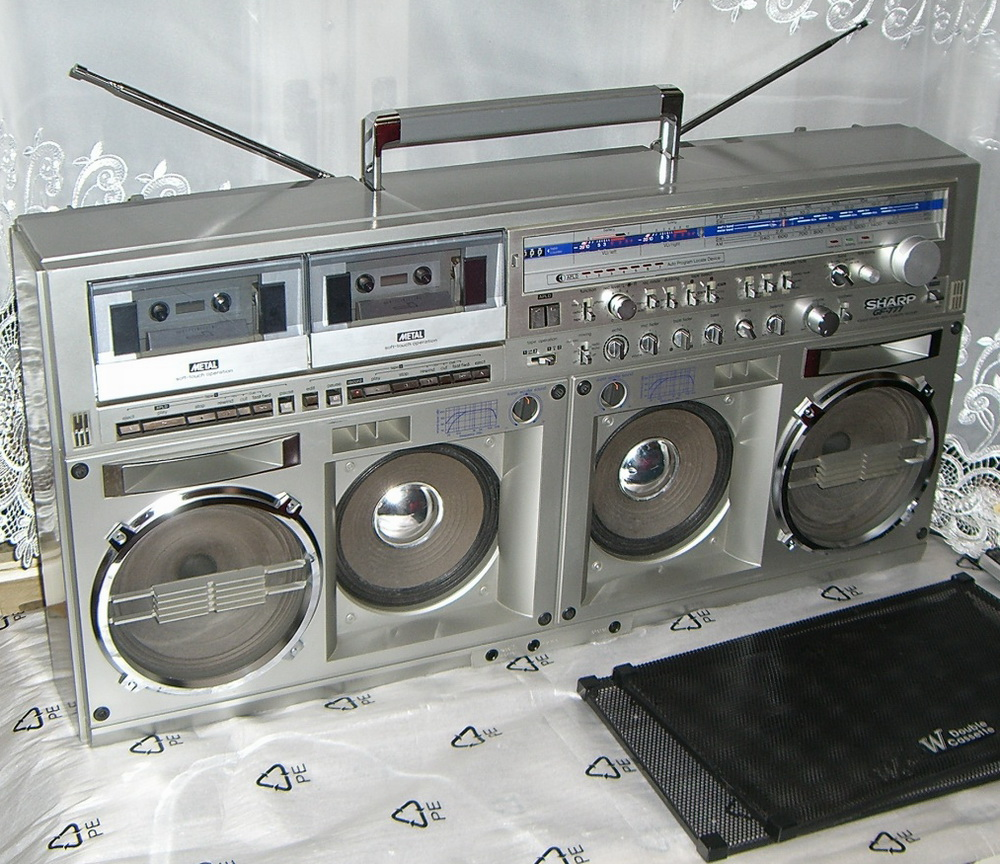 Sharp GF-777 boombox